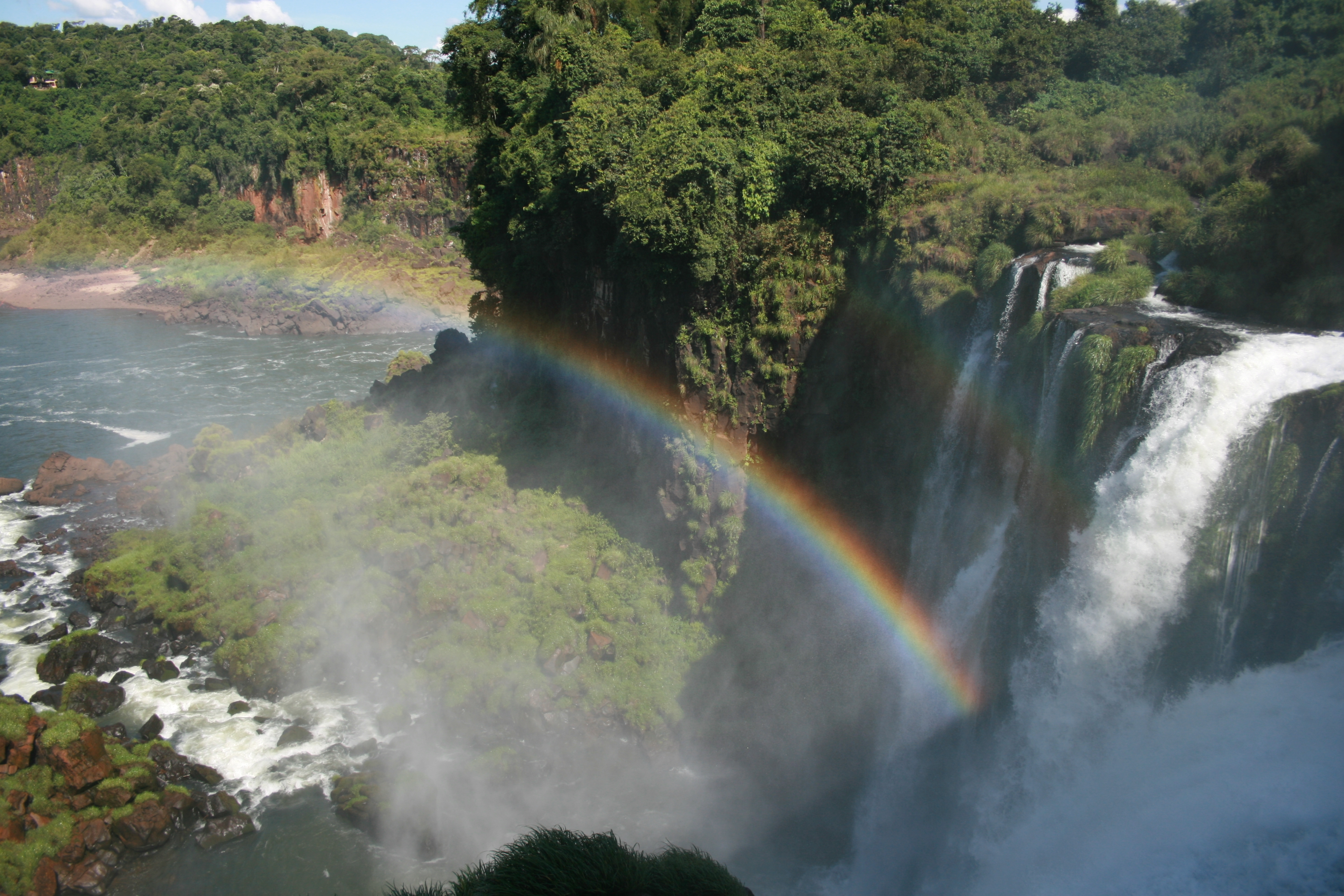 Panorama of Iguazu Falls seen from Argentina side, Iguazu National Park.